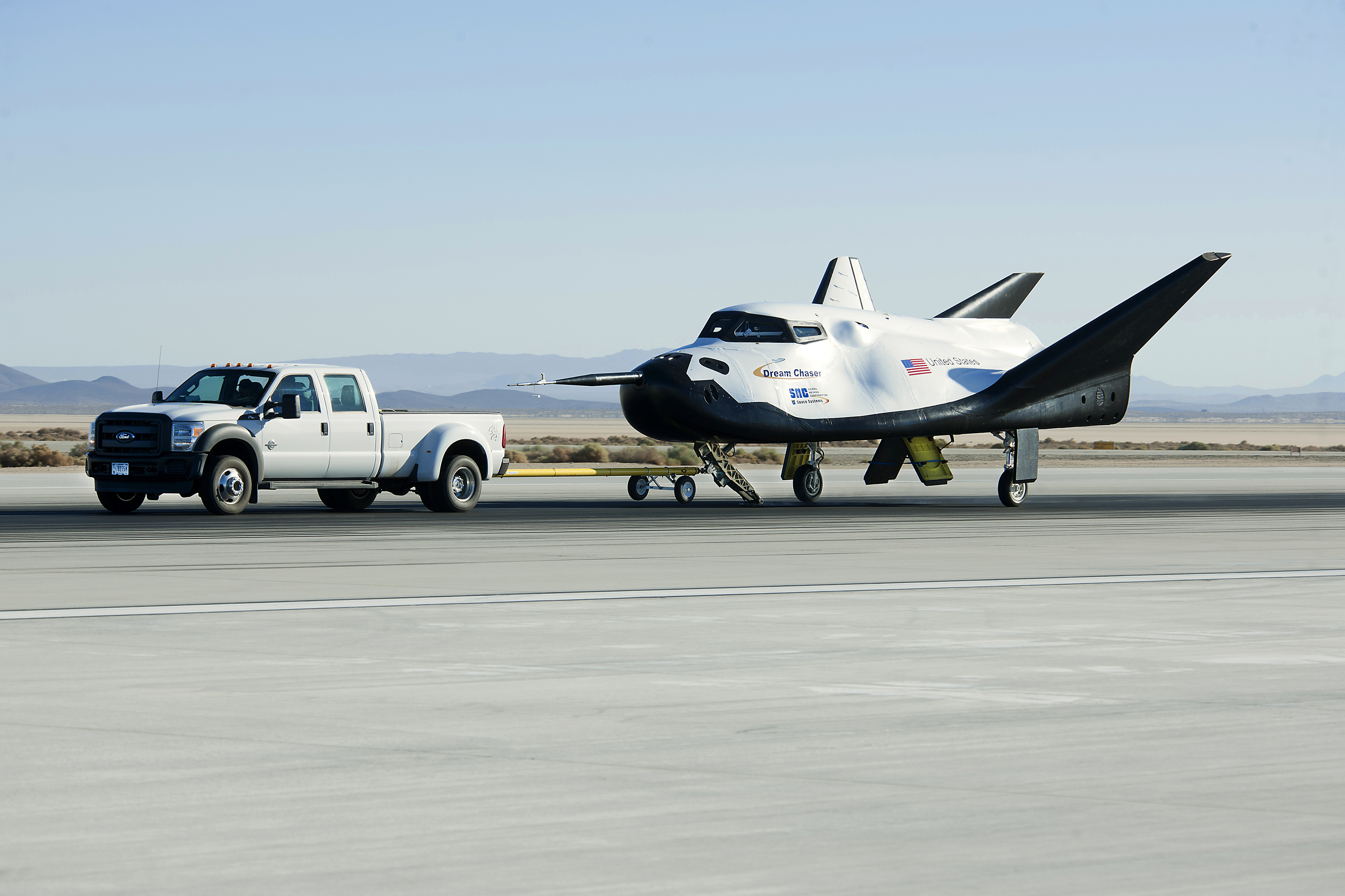 Edwards, Calif. – ED13-0266-047- A pickup truck pulls the Sierra Nevada Corporation, or SNC, Dream Chaser flight vehicle through 60 mile per hour tow tests on taxi and runways at NASA's Dryden Flight Research Center at Edwards Air Force Base in California. Ground testing at 10, 20, 40 and 60 miles per hour is helping the company validate the performance of the spacecraft's braking and landing systems prior to captive-carry and free-flight tests scheduled for later this year. SNC is continuing the development of its Dream Chaser spacecraft under the agency's Commercial Crew Development Round 2, or CCDev2, and Commercial Crew Integrated Capability, or CCiCap, phases, which are intended to lead to the availability of commercial human spaceflight services for government and commercial customers.